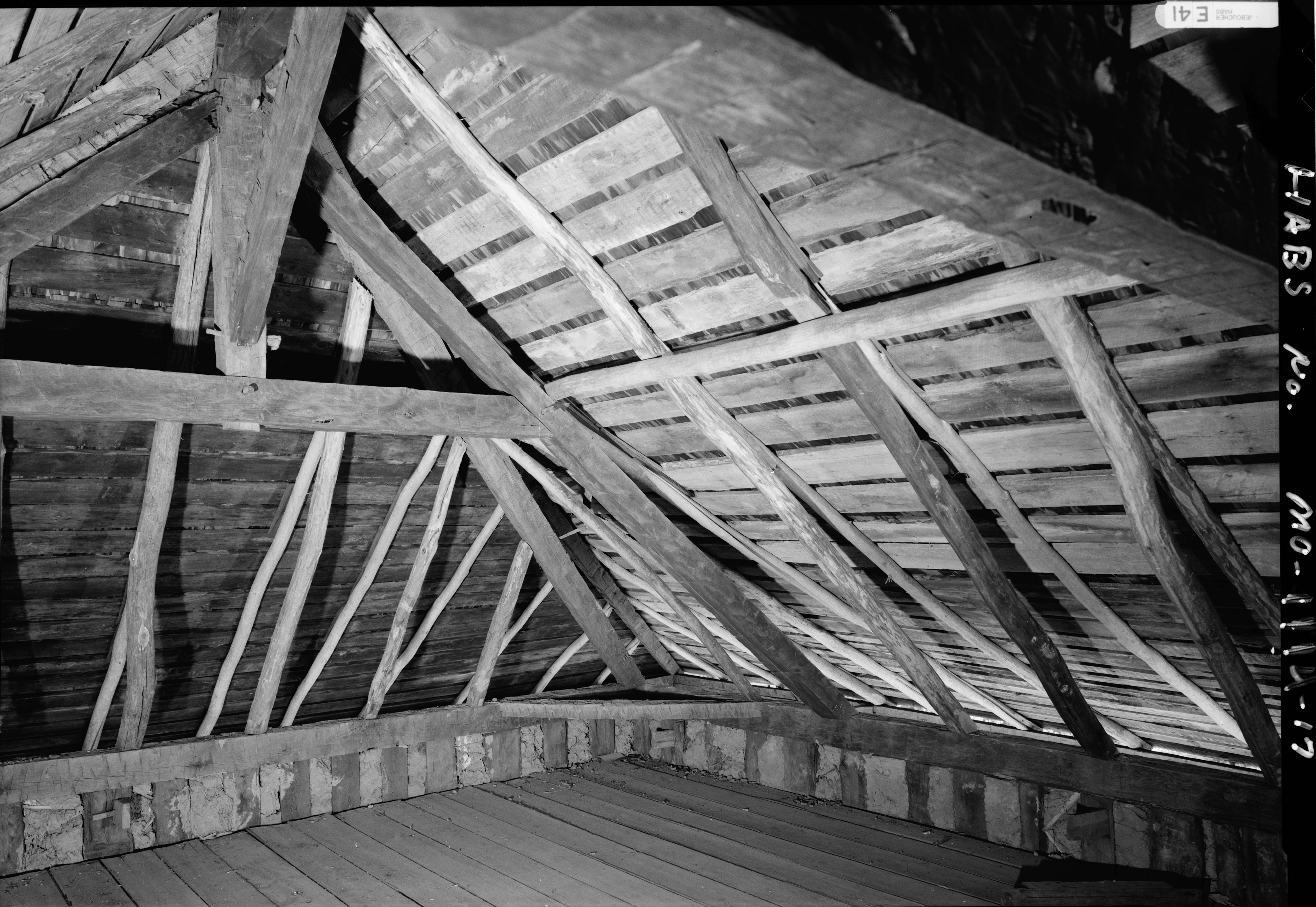 This photograph shows the Norman Truss which supports the roof. Note how the rafter poles for the gallerie tie-in. The Bequet-Ribault House was built c. 1793 near Ste. Geneviève, Missouri. It is one of three poteaux-en-terre buildings that survive. The others are the Amoureaux House and the Vital St. Gemme Beauvais House I (20 S. Main Street).